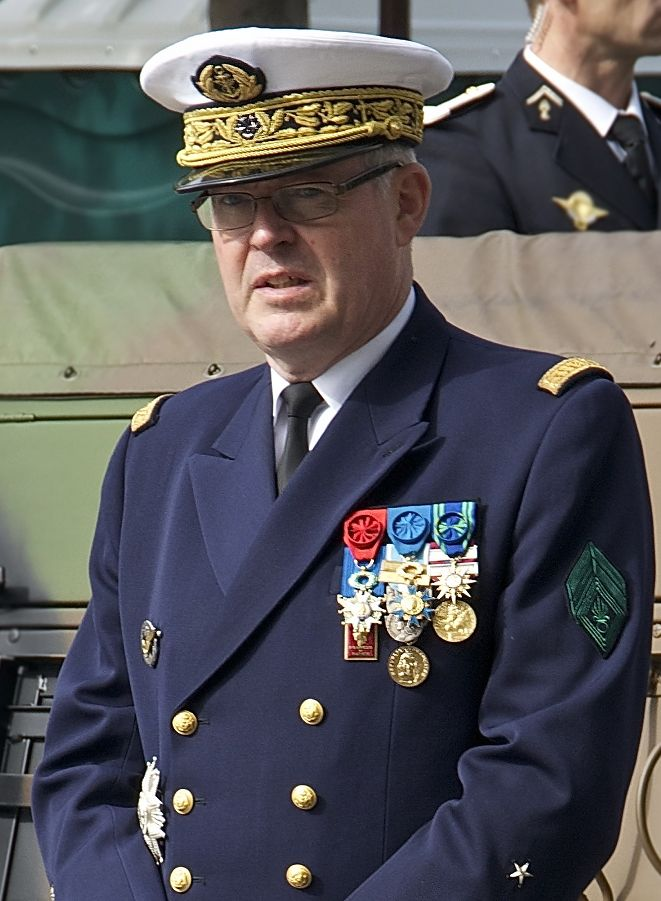 Admiral Edouard GUILLAUD, general chief of staff of the french armies. July 14, 2012, Paris.